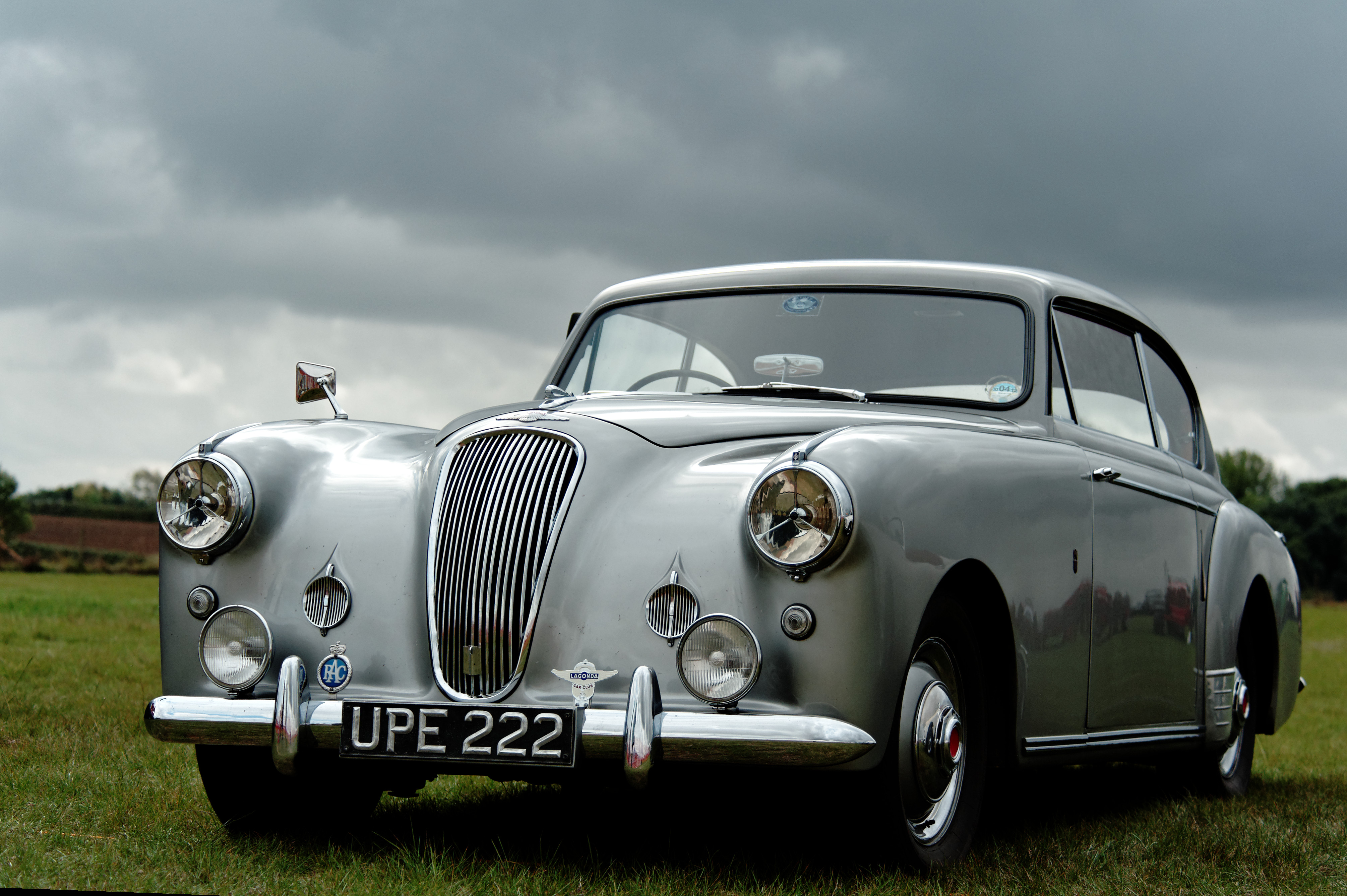 Lagonda three-litre (DVLA) 2922 cc, first registered 3 January1954